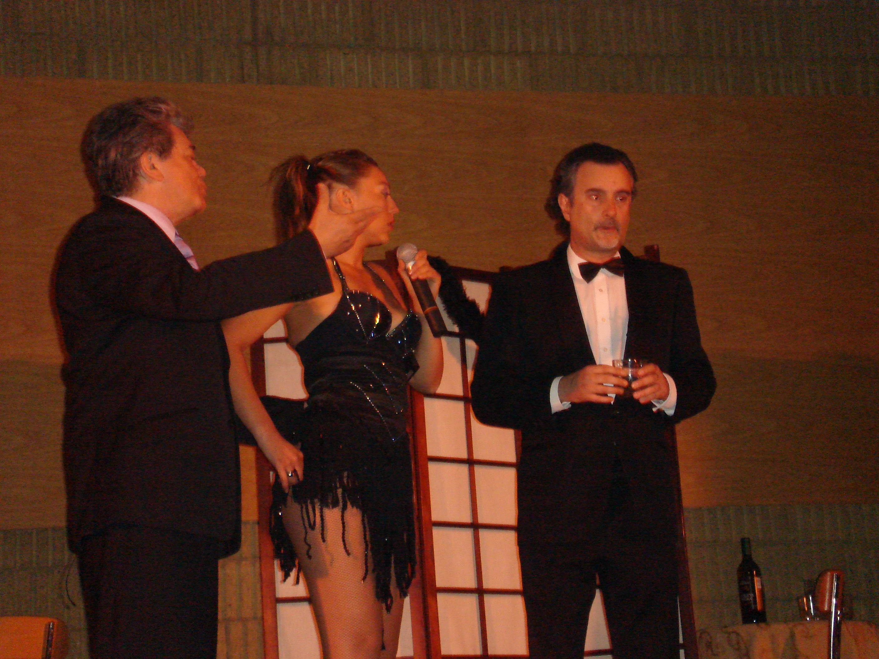 Picture taken by my father in the café concert MUCHO MAS QUE ESO